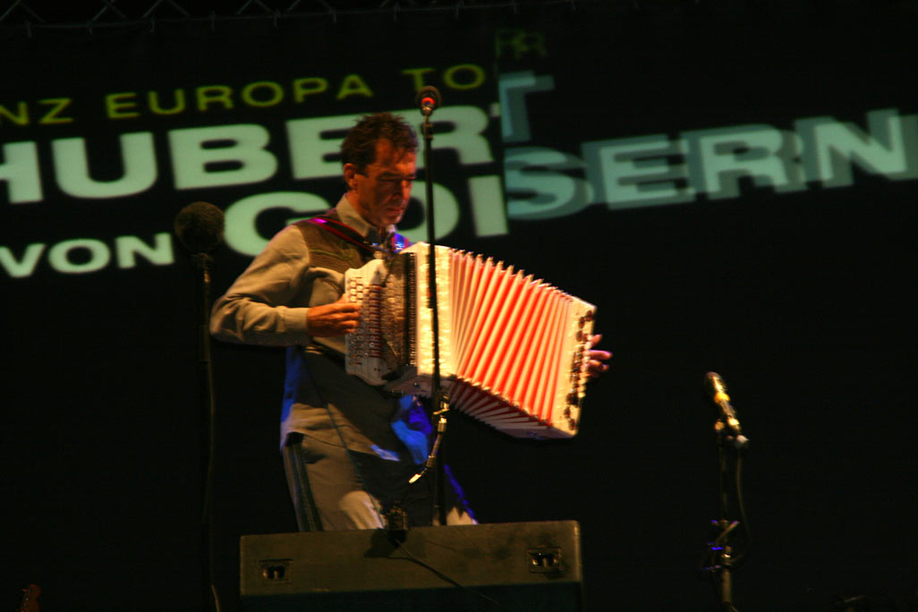 Austrian musician Hubert von Goisern at the Donauinselfest 2007